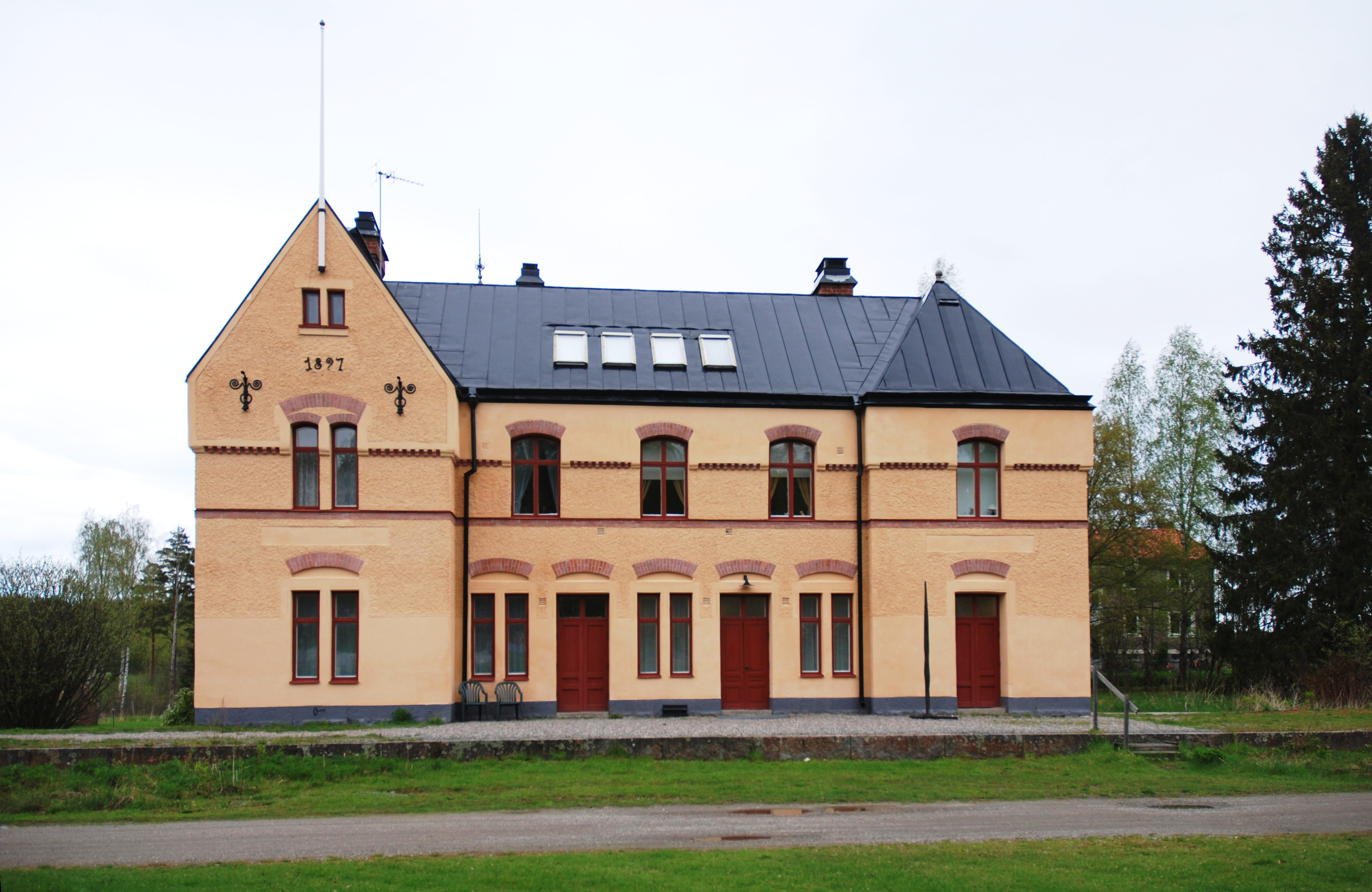 Earlier Railway Station, now Gallery Astley, at Uttersberg, Sweden